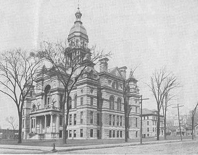 The former Scott County Courthouse in Davenport, Iowa. It was built in 1886 and torn down to make way for the present courthouse, which was built in 1955.